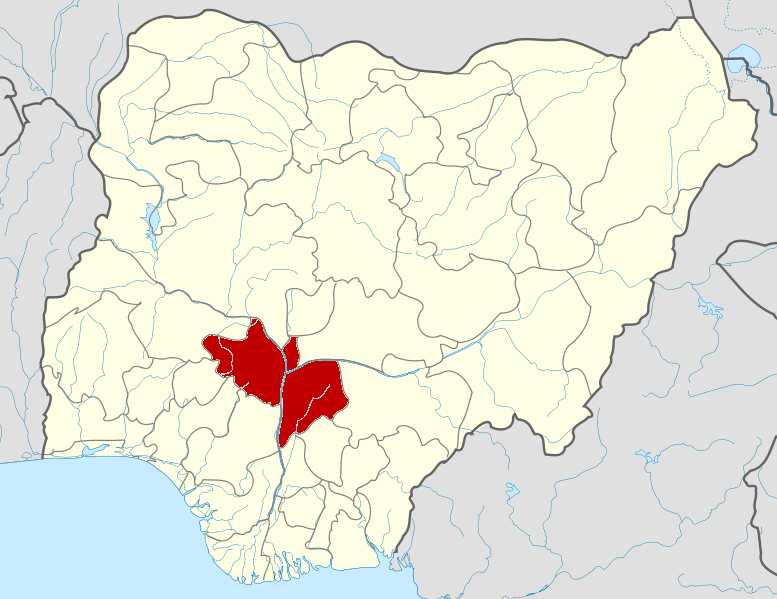 Map locator of Nigeria.